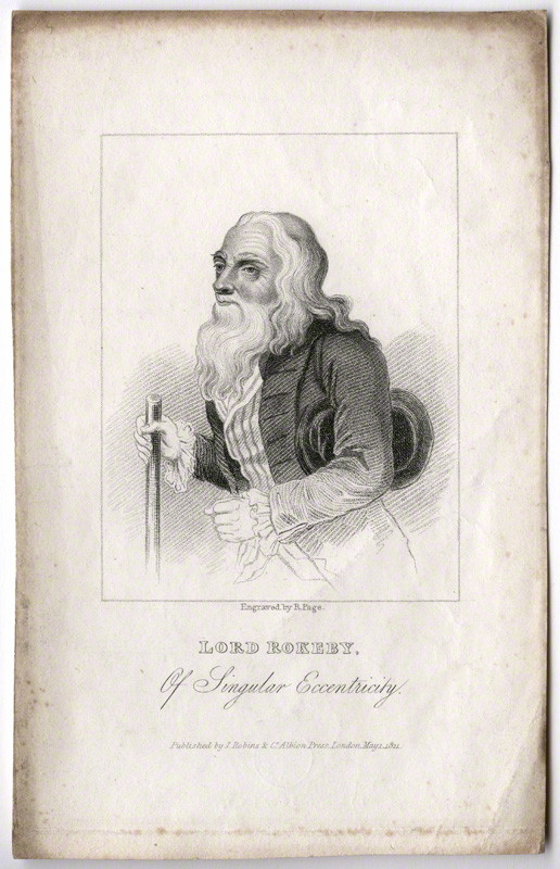 BETTER, fuller or alternate VERSION of something already uploaded of Matthew Robinson, Lord Rokeby, by R. Page, published by J. Robins & Co, stipple engraving, 1821.